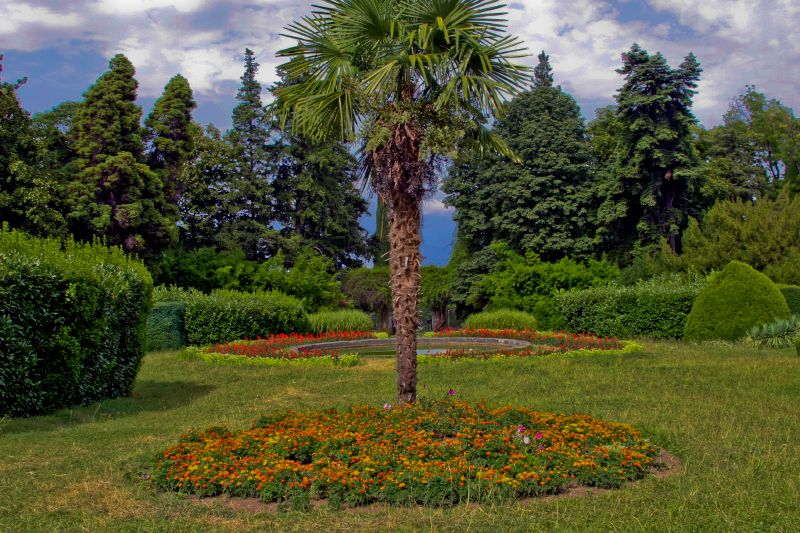 Tsinandali Garden